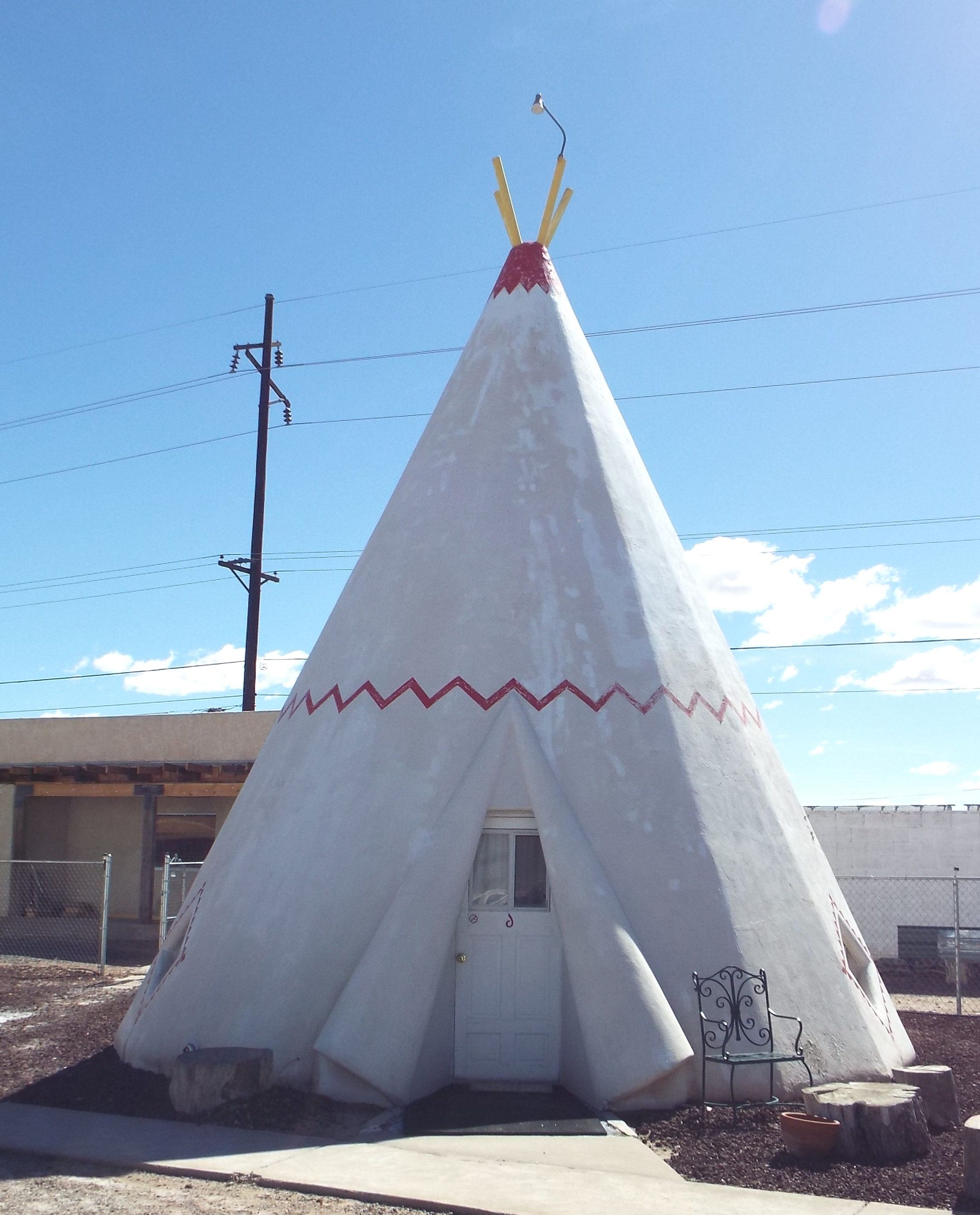 Wigwam Motel 811 West Hopi Dr.Holbrook, AZ. Listed in the National Register of Historic Places built during the 1930s and 1940s.